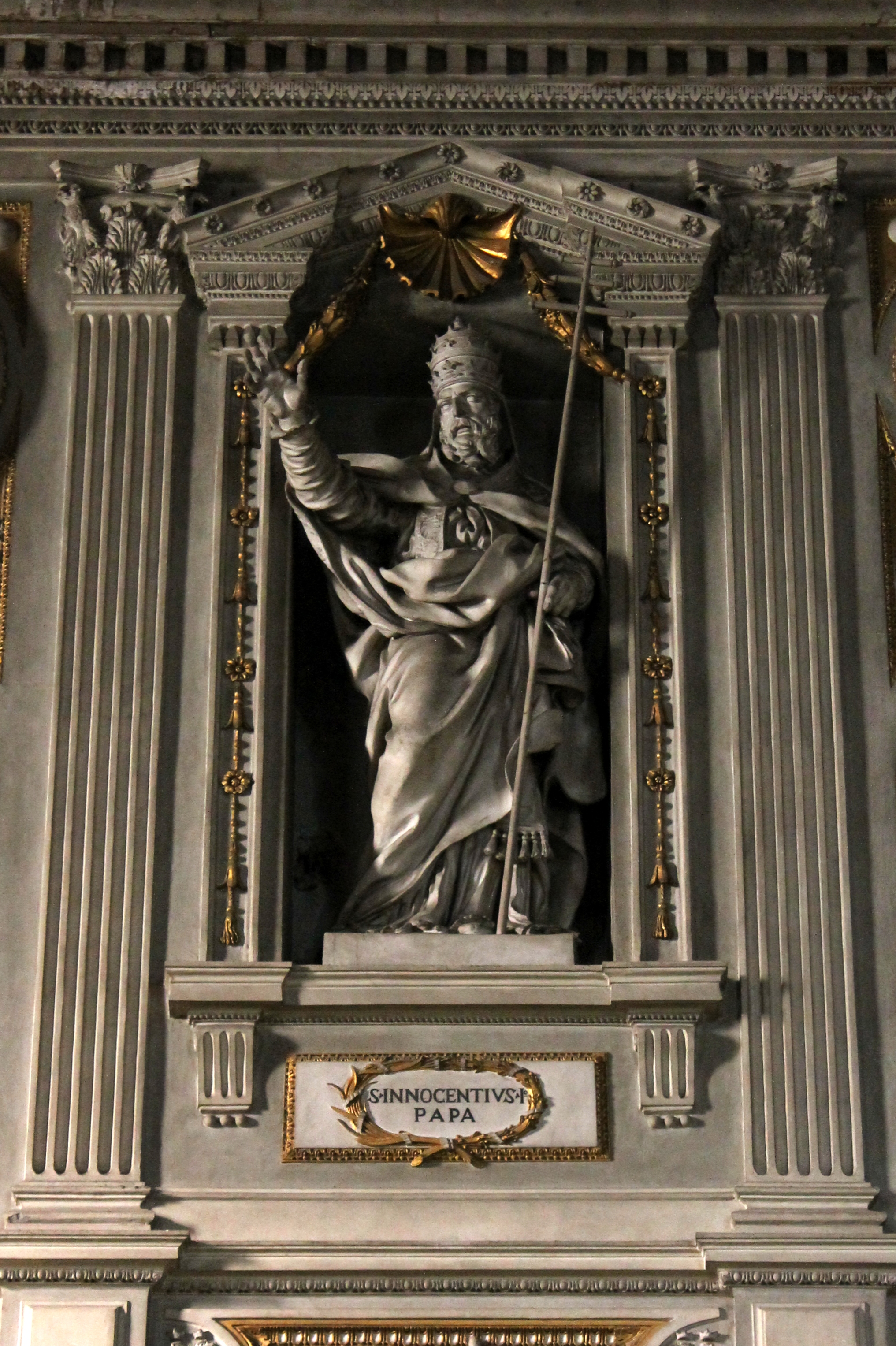 Statue of Pope Saint Innocent, from the upper register of the nave of the church of San Martino ai Monti in Rome. Sculptor may have been Paolo Naldini.